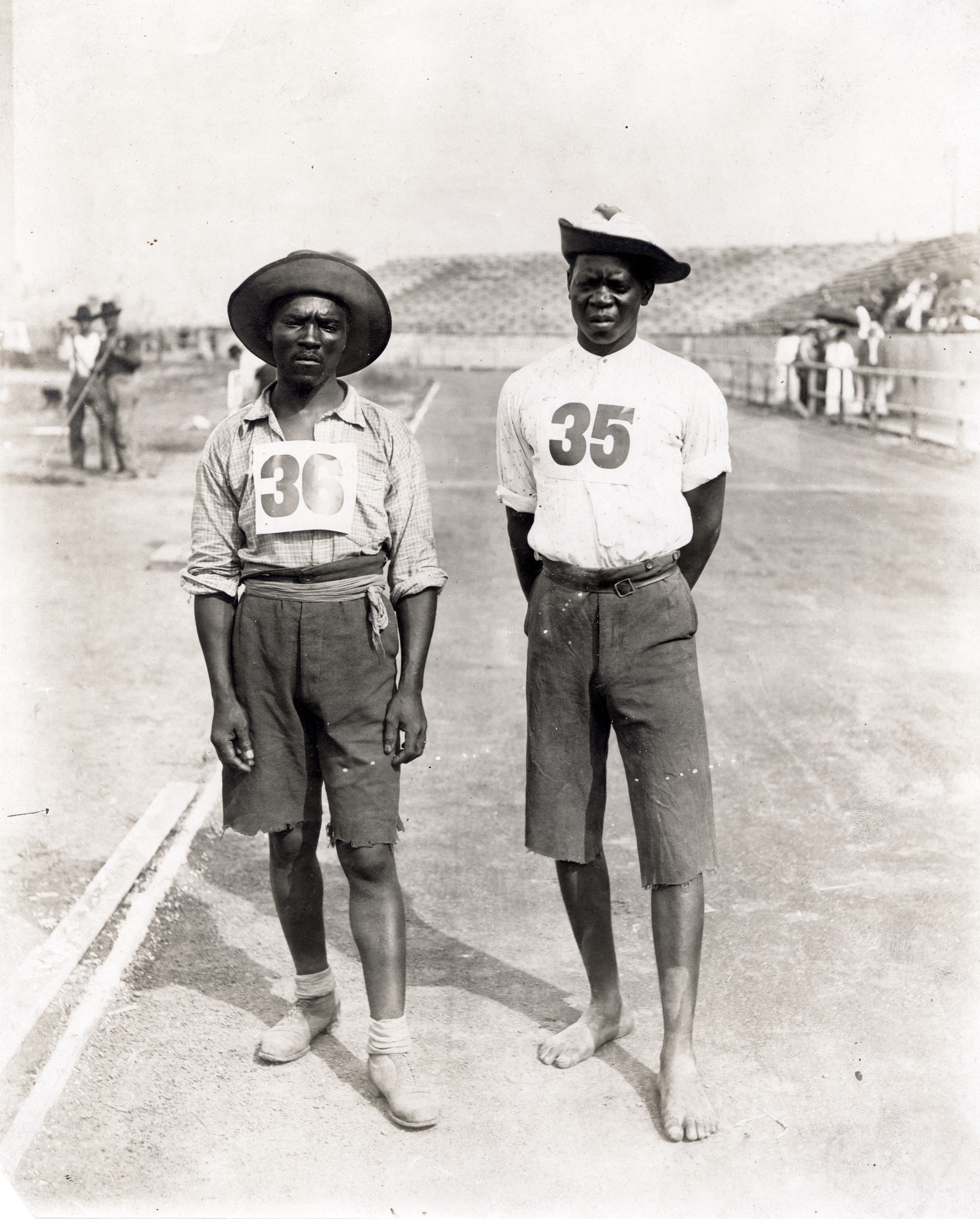 Len Tau (left) and Jan Mashiani of the Tswana tribe of South Africa facing camera standing on the track.Title: 1904 Olympic Marathon participants, Len Tau (left) and Jan Mashiani of the Tswana tribe of South Africa.